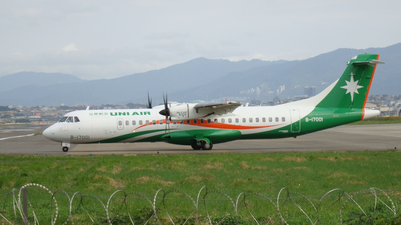 UNI Air's first aircraft of ATR 72-600 in RCSS